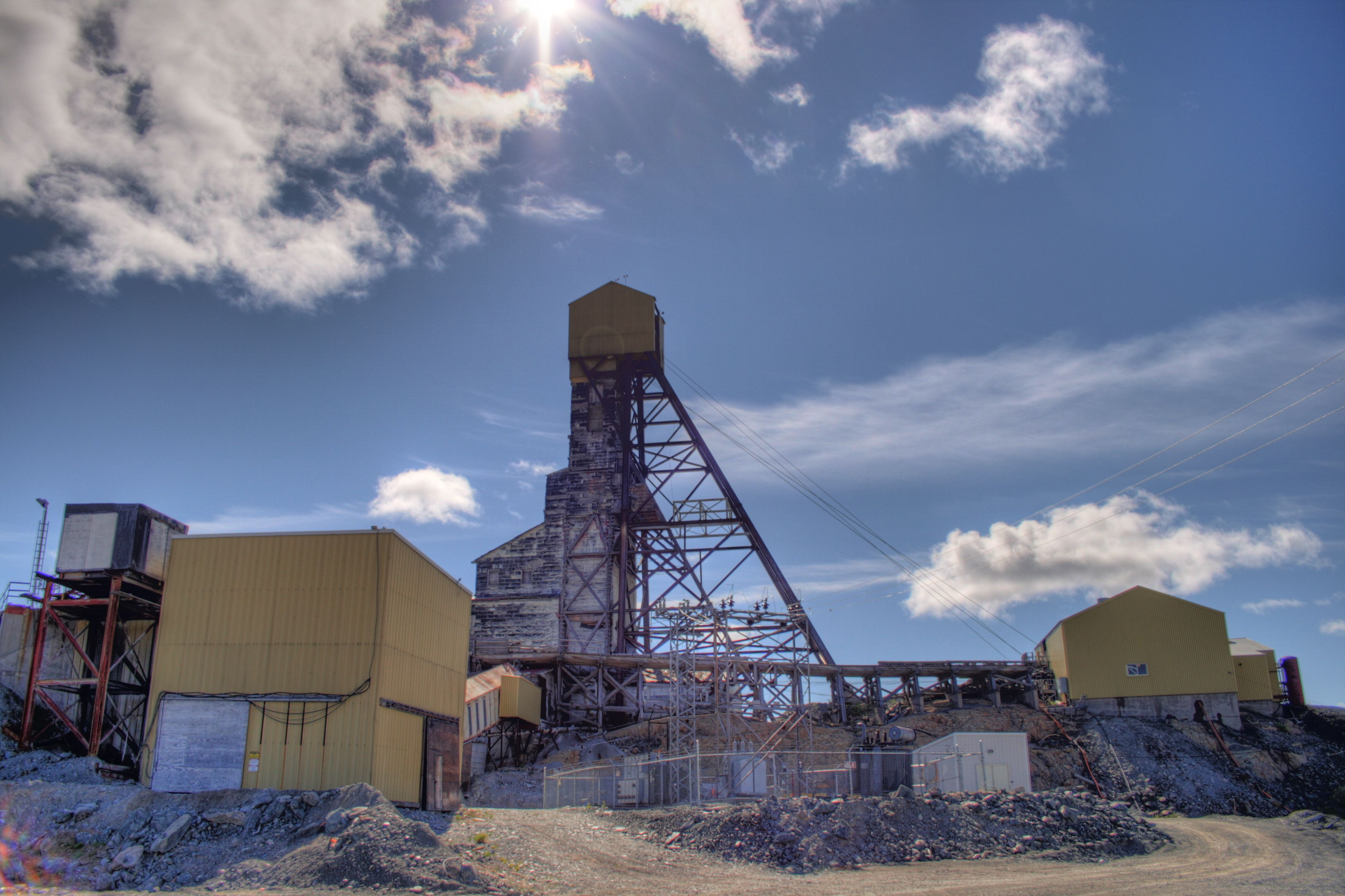 Some mine buildings at Giant Mine, Yellowknife, Northwest Territories, Canada.